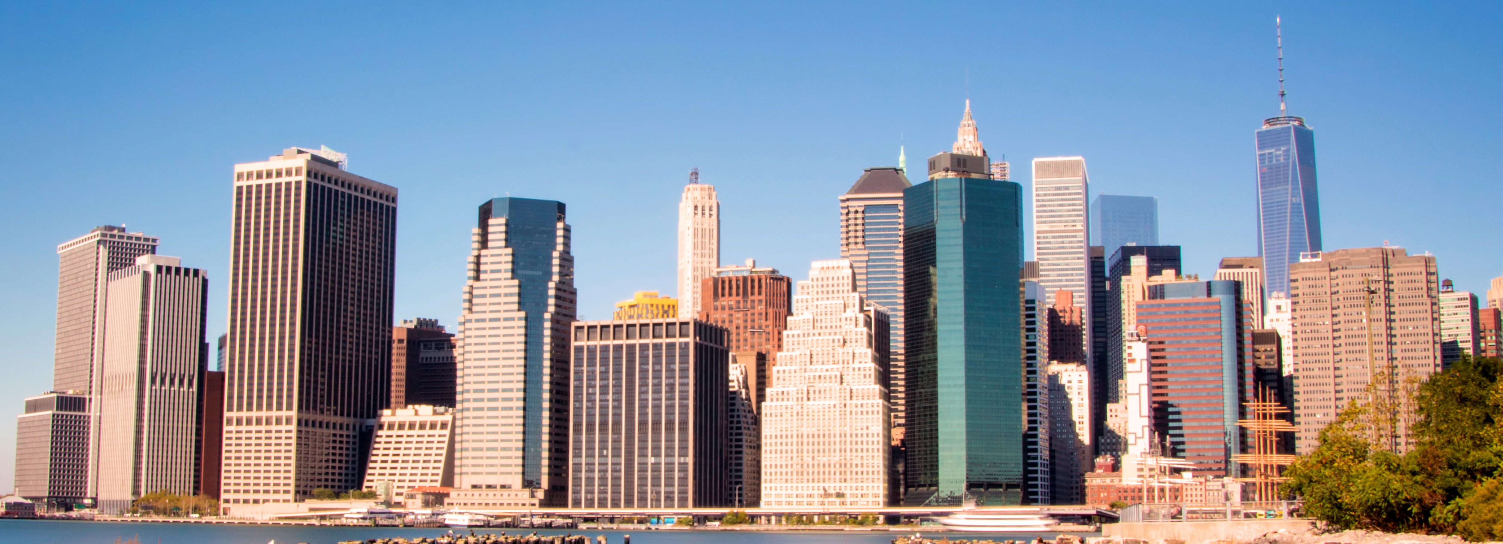 Lower Manhattan viewed from Brooklyn